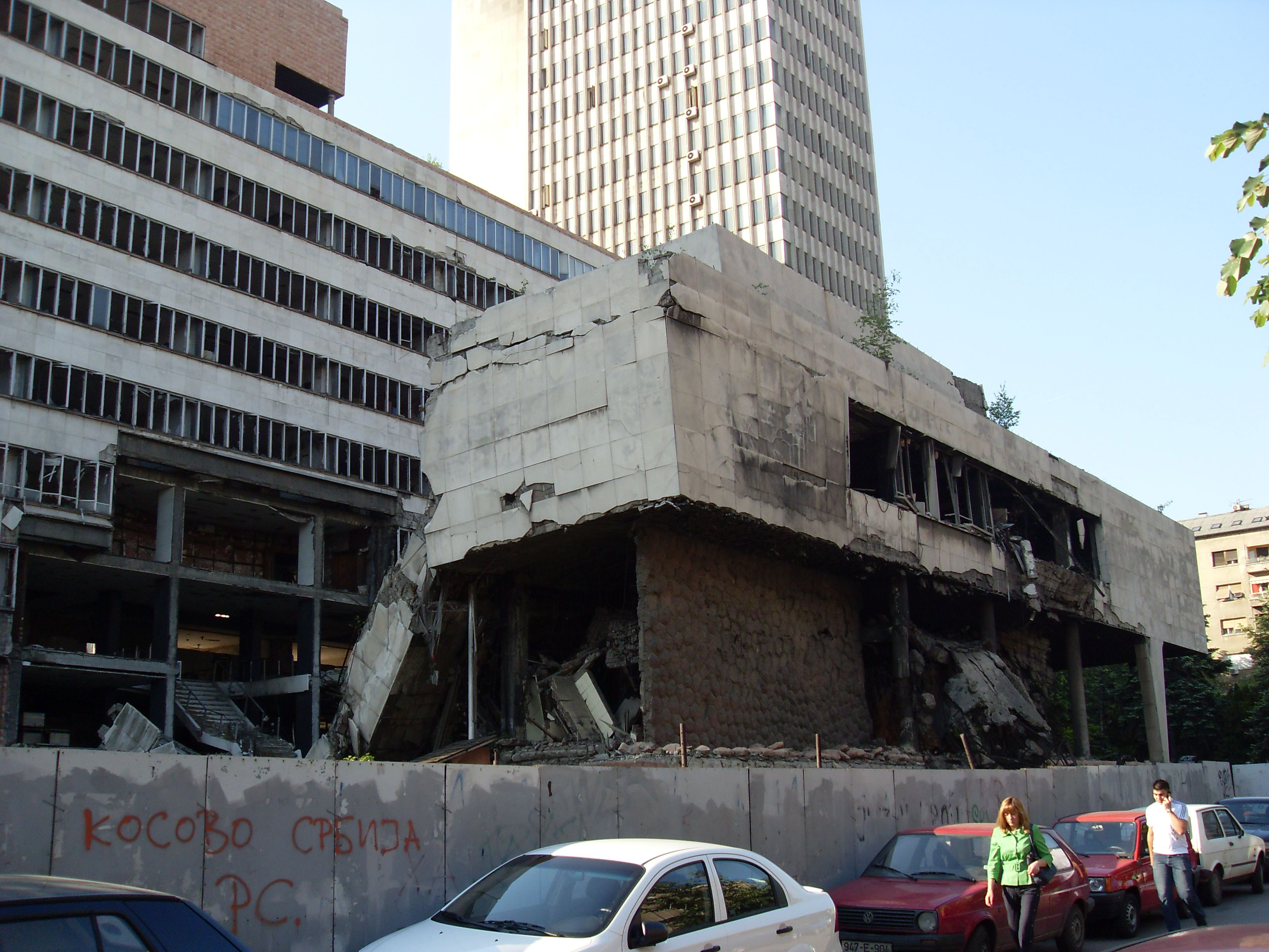 Destroyed building in the city of Beograd from NATO attacs.